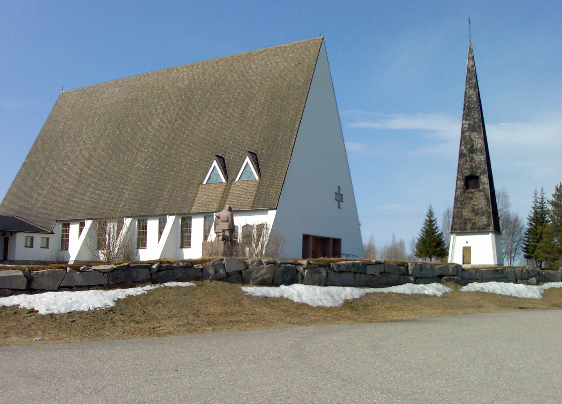 The Church of Salla